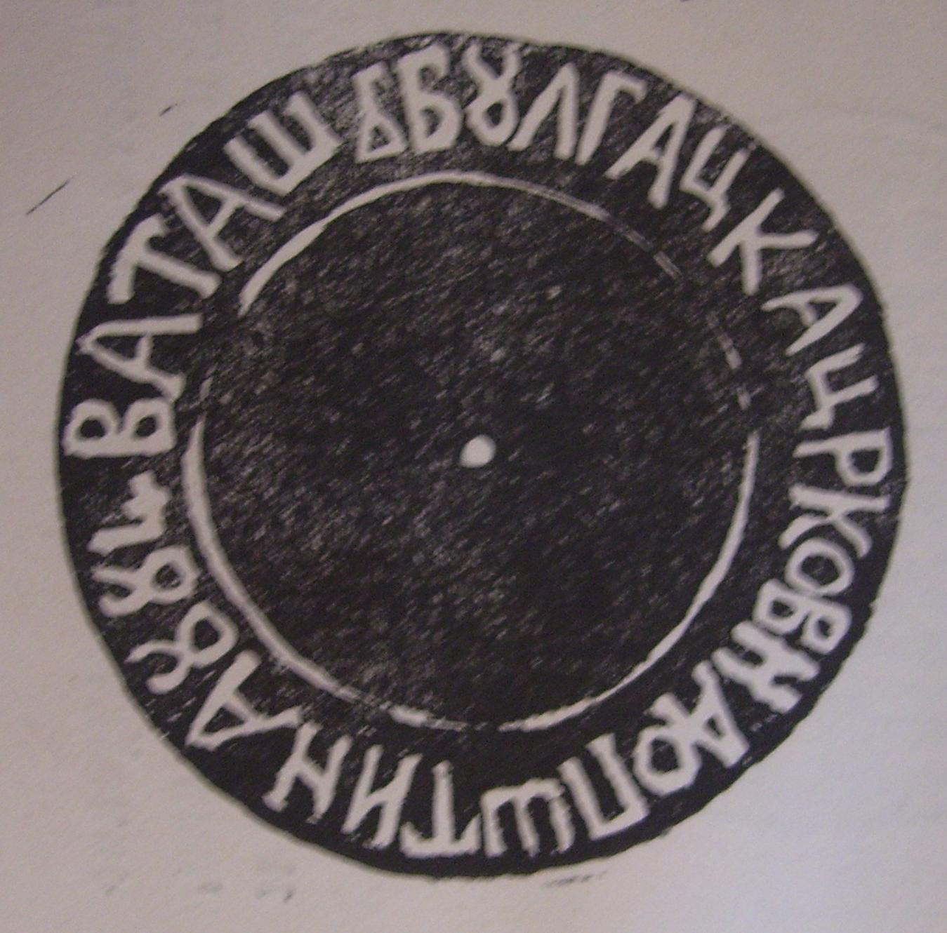 Seal of the Bulgarian Municipality in Vatasha. Inscription: Ваташъ Булгацка Црковна Општина 884